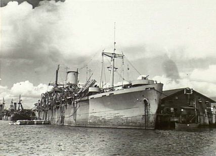 Photo of HMS Empire Spearhead at Trinity Beach, Queensland